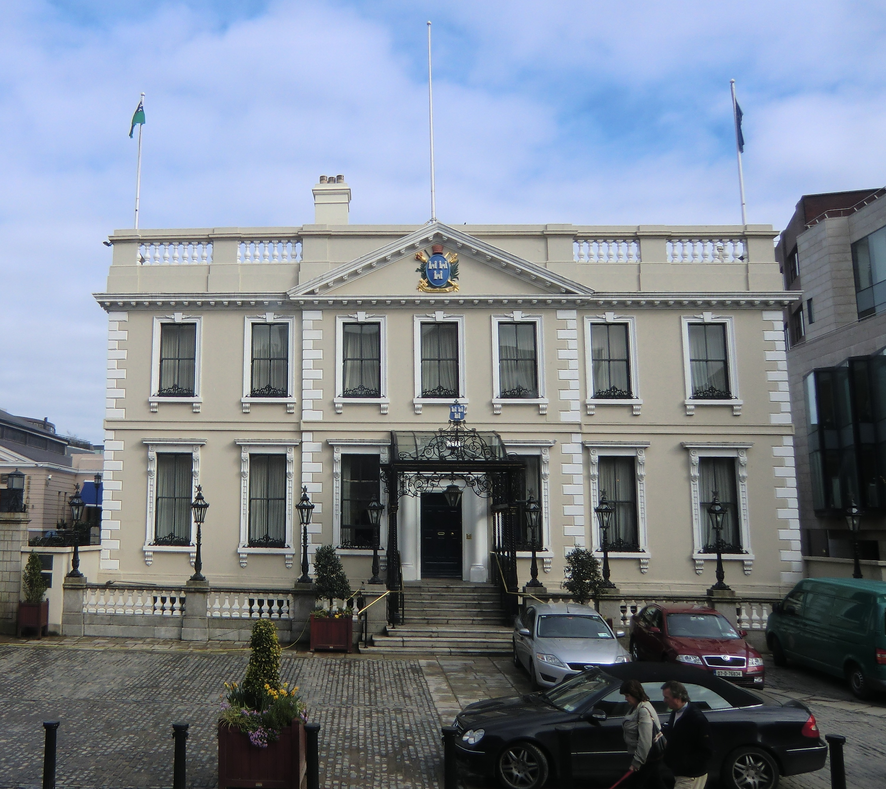 Mansion House, Dublin, Ireland